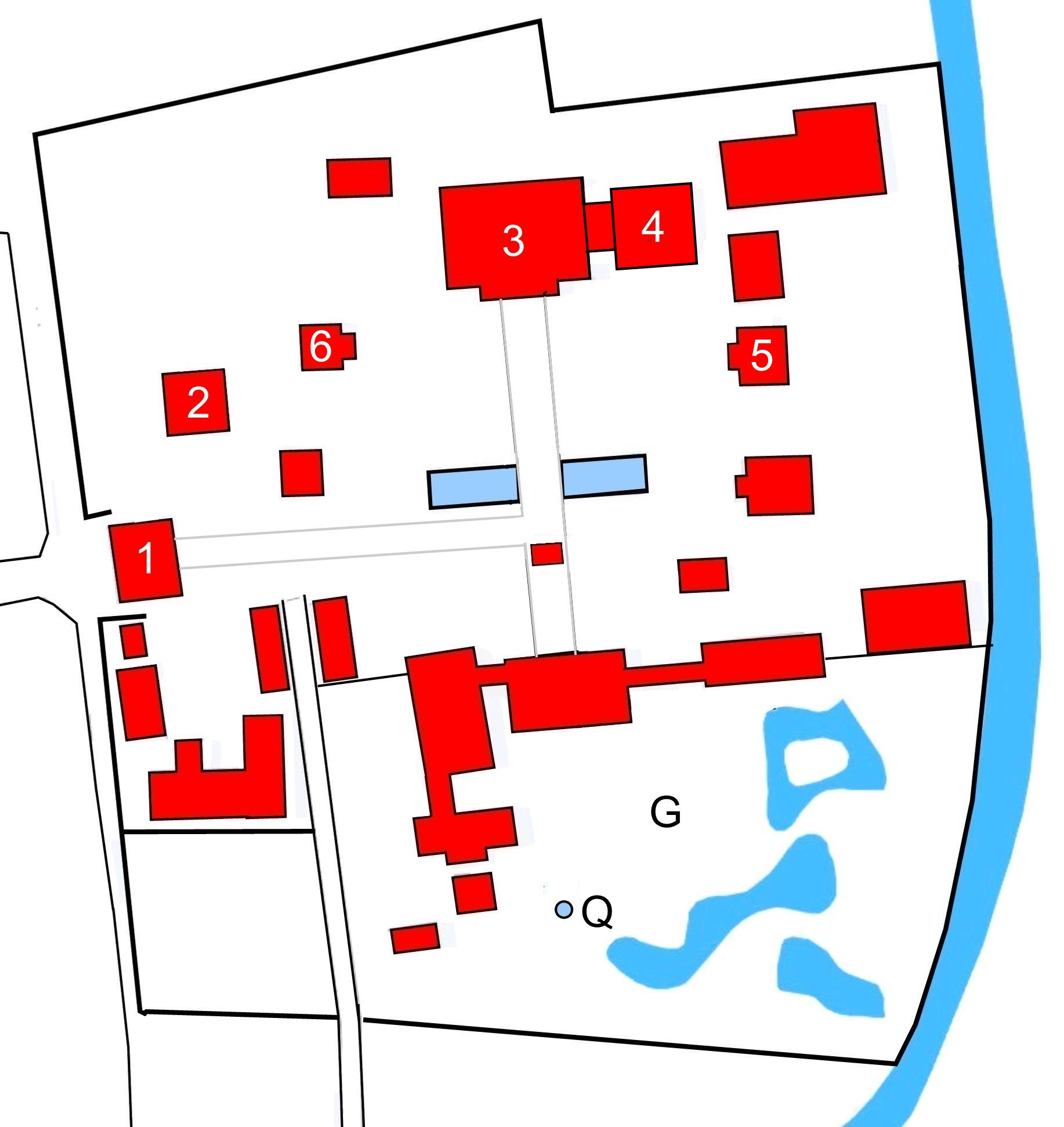 Layout of Shidoji-temple, Japan